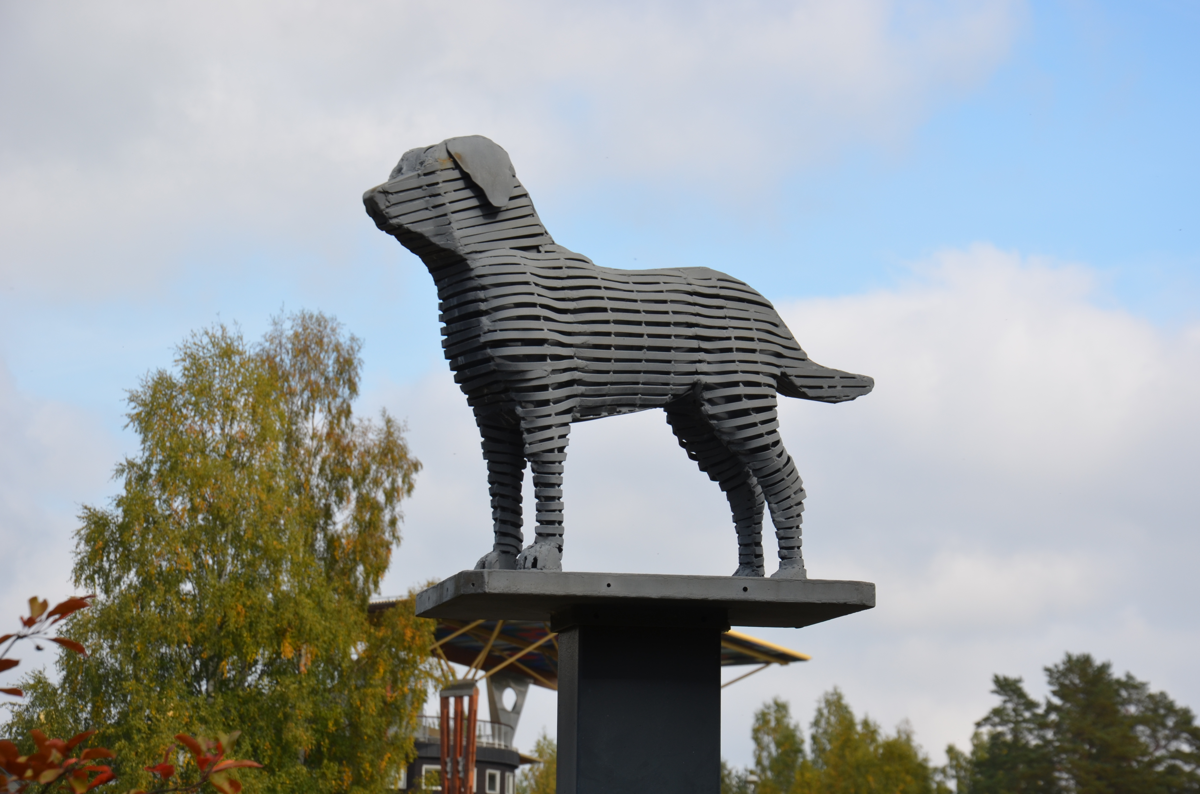 Friskulptur av Lars Spaak vid vägtunneln mellan samhället och Måltidens hus i Grythyttan